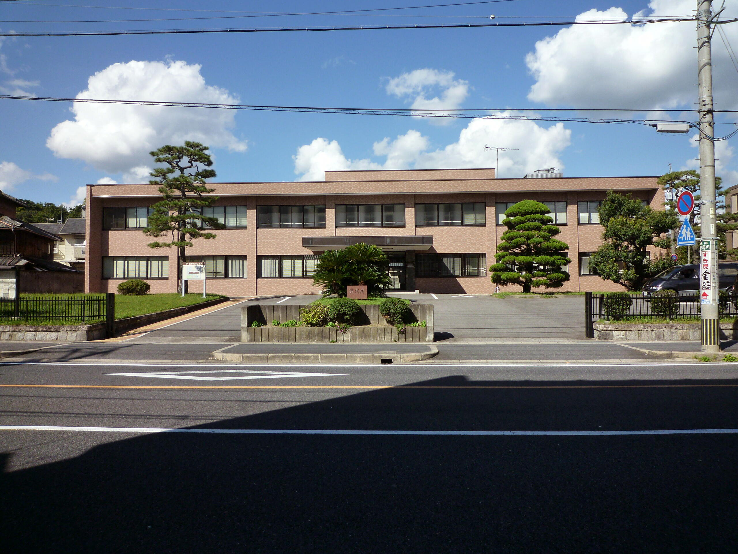 The "Tsu District Court Iga Branch" in Iga, Mie, Japan.